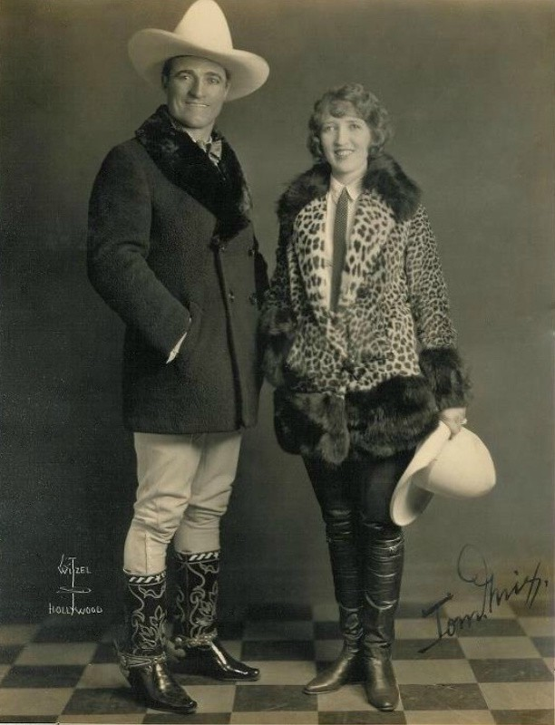 Portrait of American actors Tom Mix and Victoria Forde by American photographer Albert Witzel.